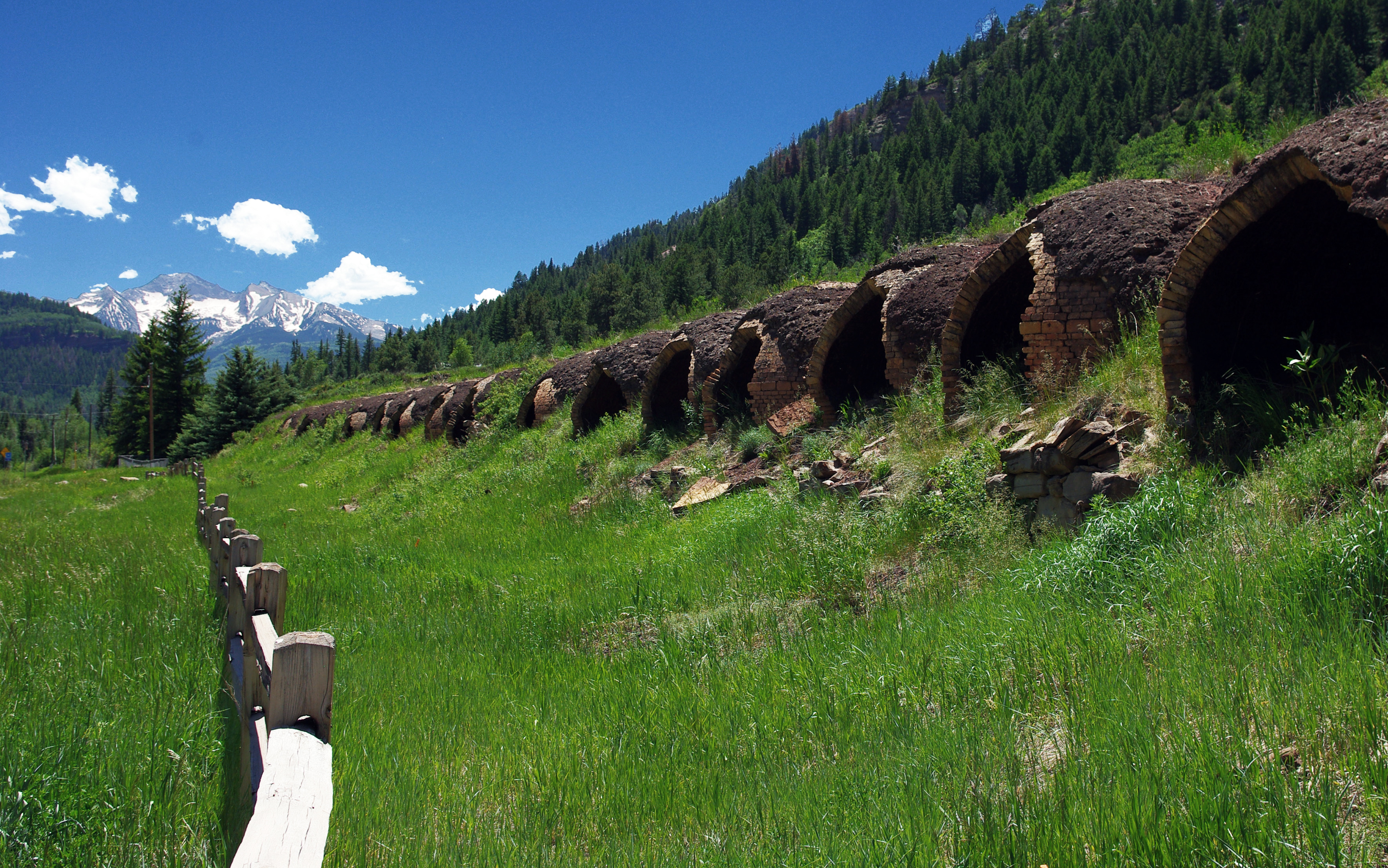 Old coke ovens, now part of Redstone, COI, USA, Coke Oven Historic District